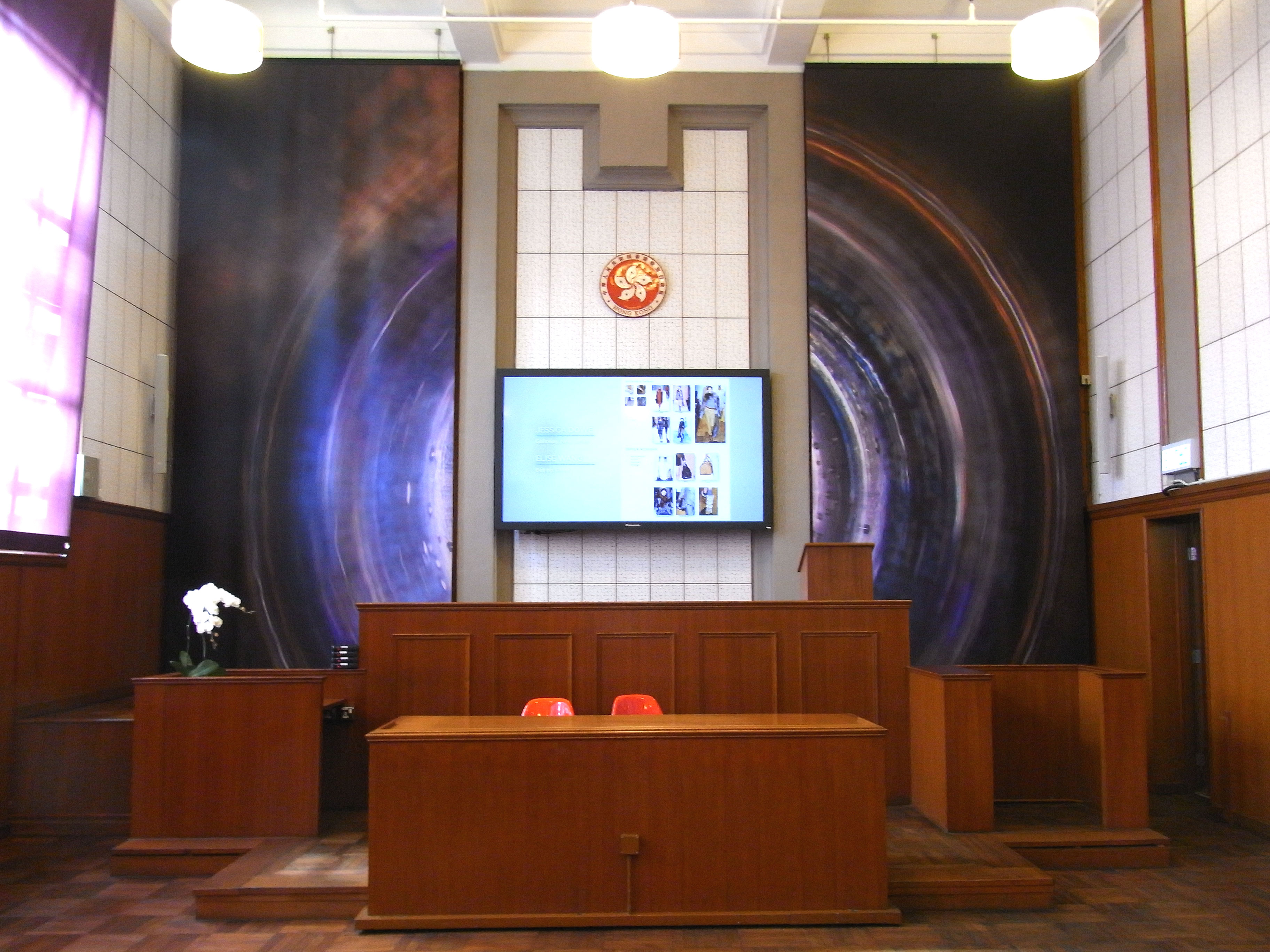 薩凡納藝術設計學院, SCAD Hong Kong, No.292 Tai Po Road, Hong Kong